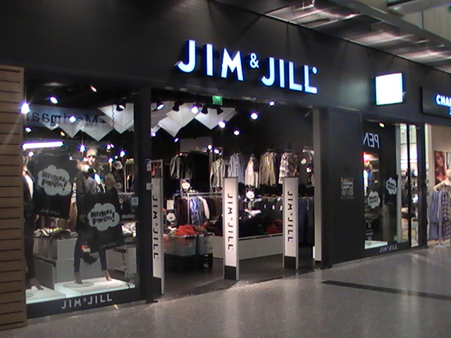 Jim&Jill youth clothing chain's store at Shopping center Zeppelin, Kempele. Jim&Jill is a finnish cloth chain.